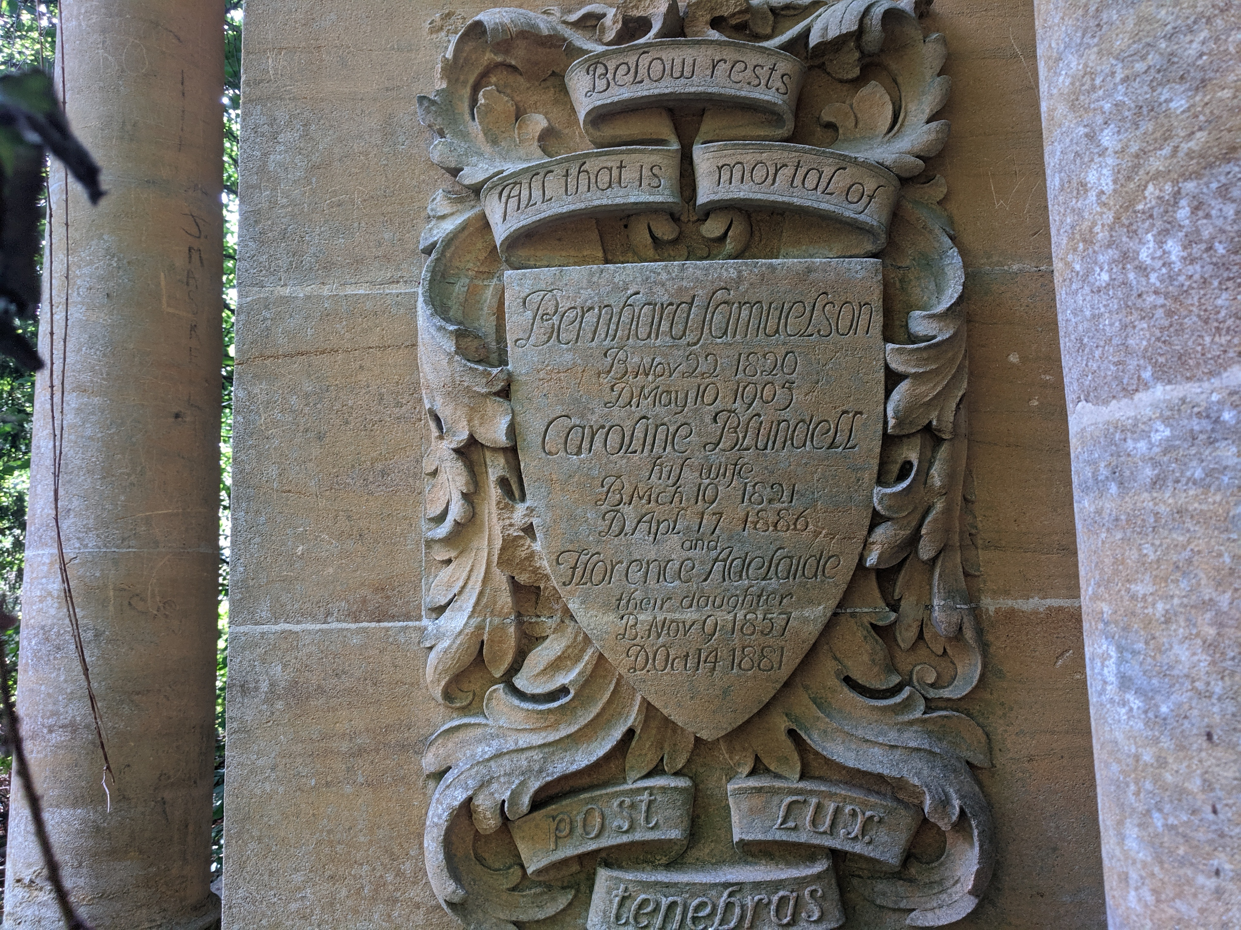 Inscription outside mausoleum